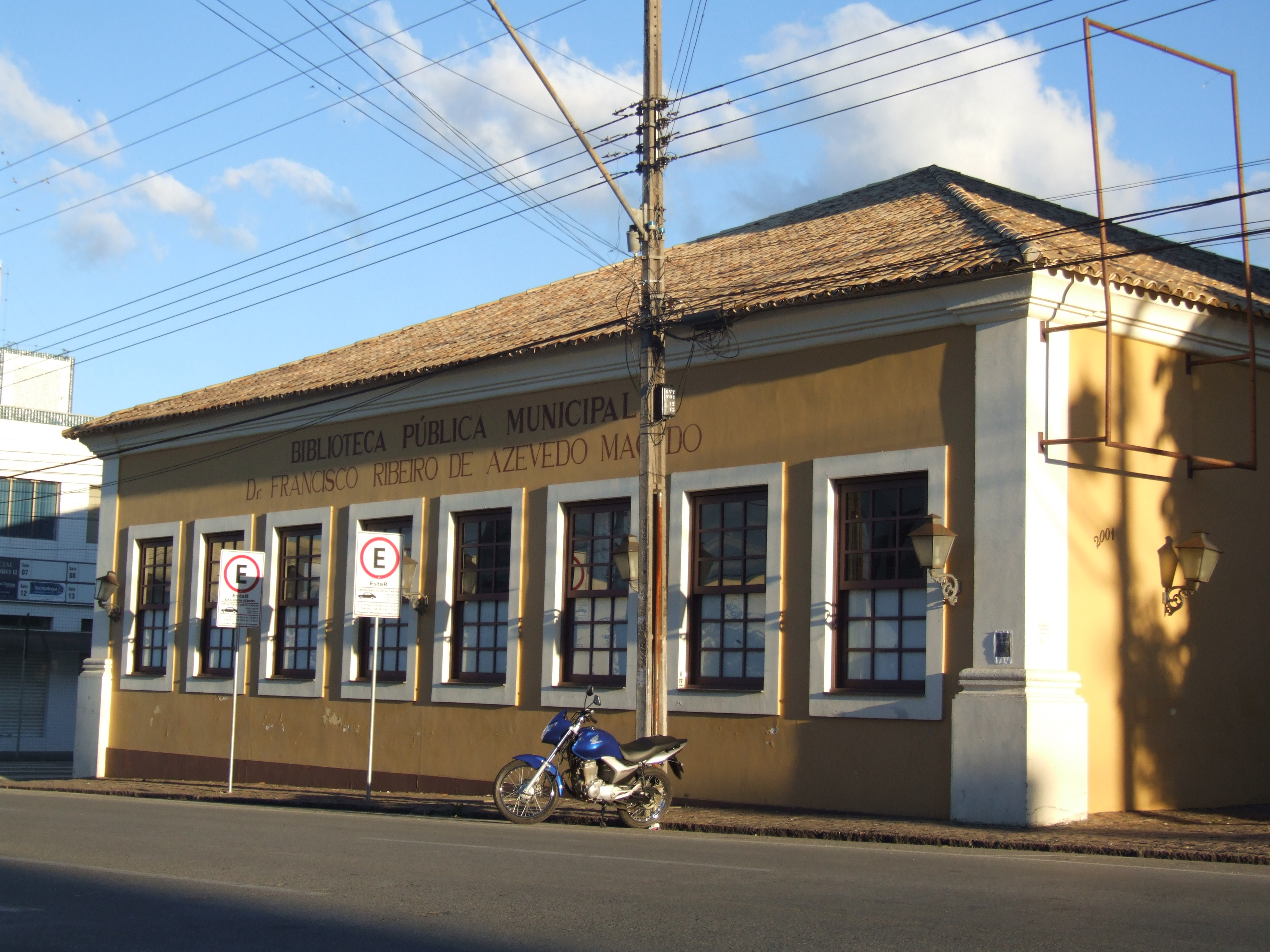 Municipal Public Library of Campo Largo, Paraná, Brazil.